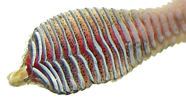 Lamellae on a gecko's foot